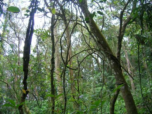 Liana tangle in a Western Ghats forest. Wynaad, Kerala, India.